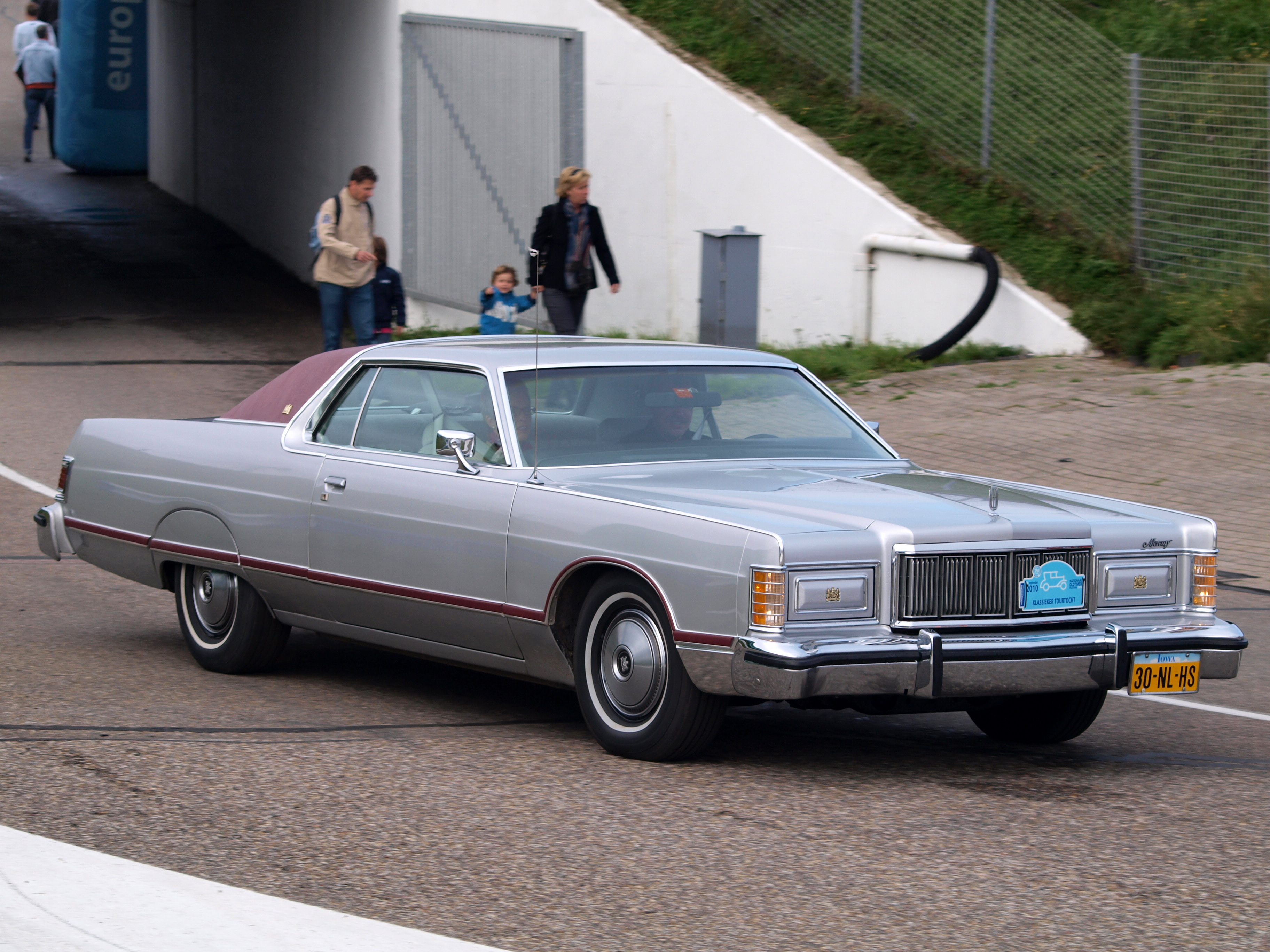 Photographed at the Nationaal Oldtimer Festival Zandvoort 2010, The Netherlands.